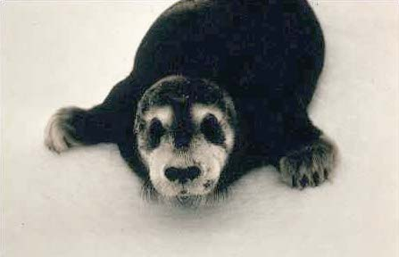 Bearded Seal pup (Erignathus barbatus)